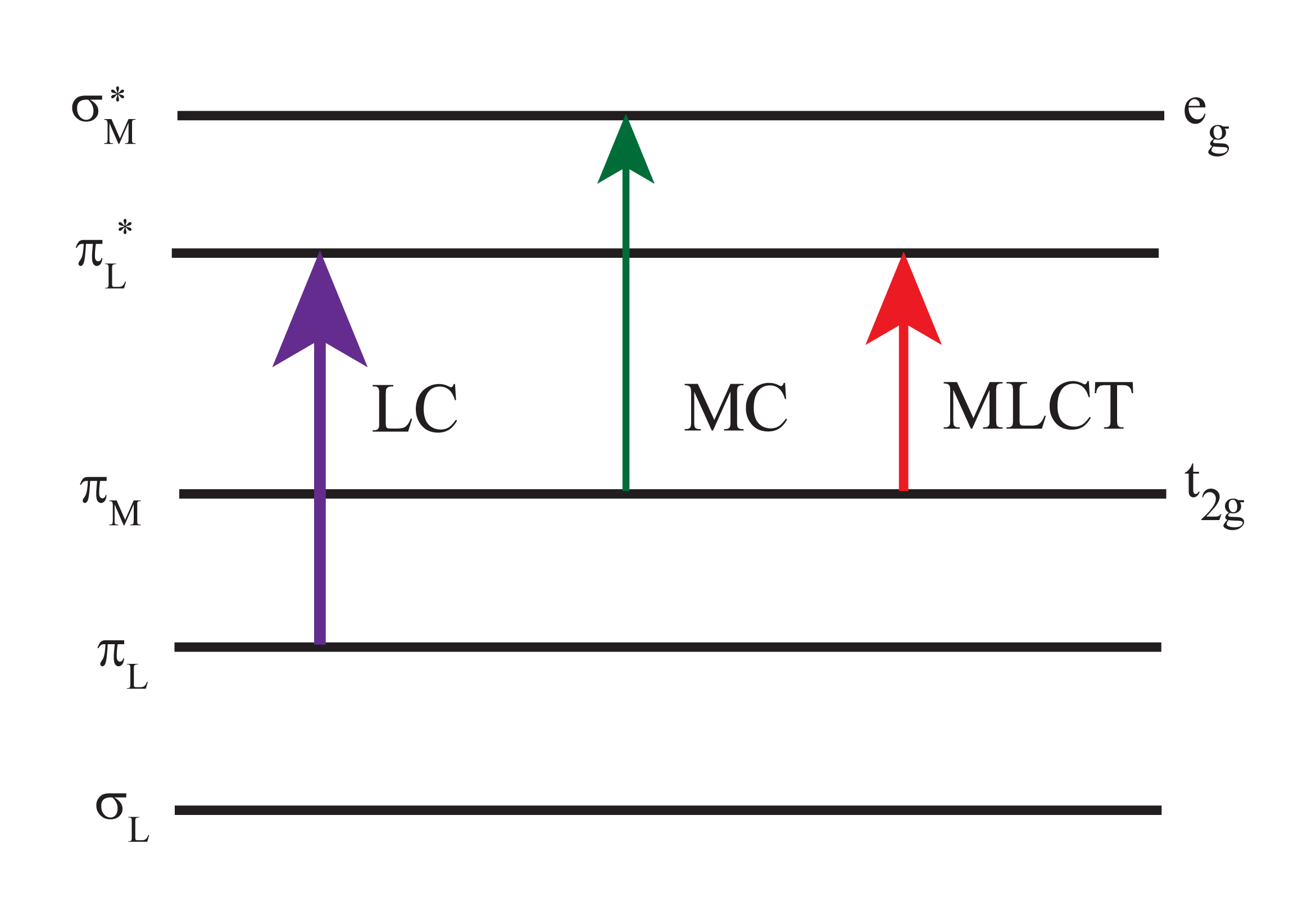 Energy level diagram of [Ru(bpy)3]2+